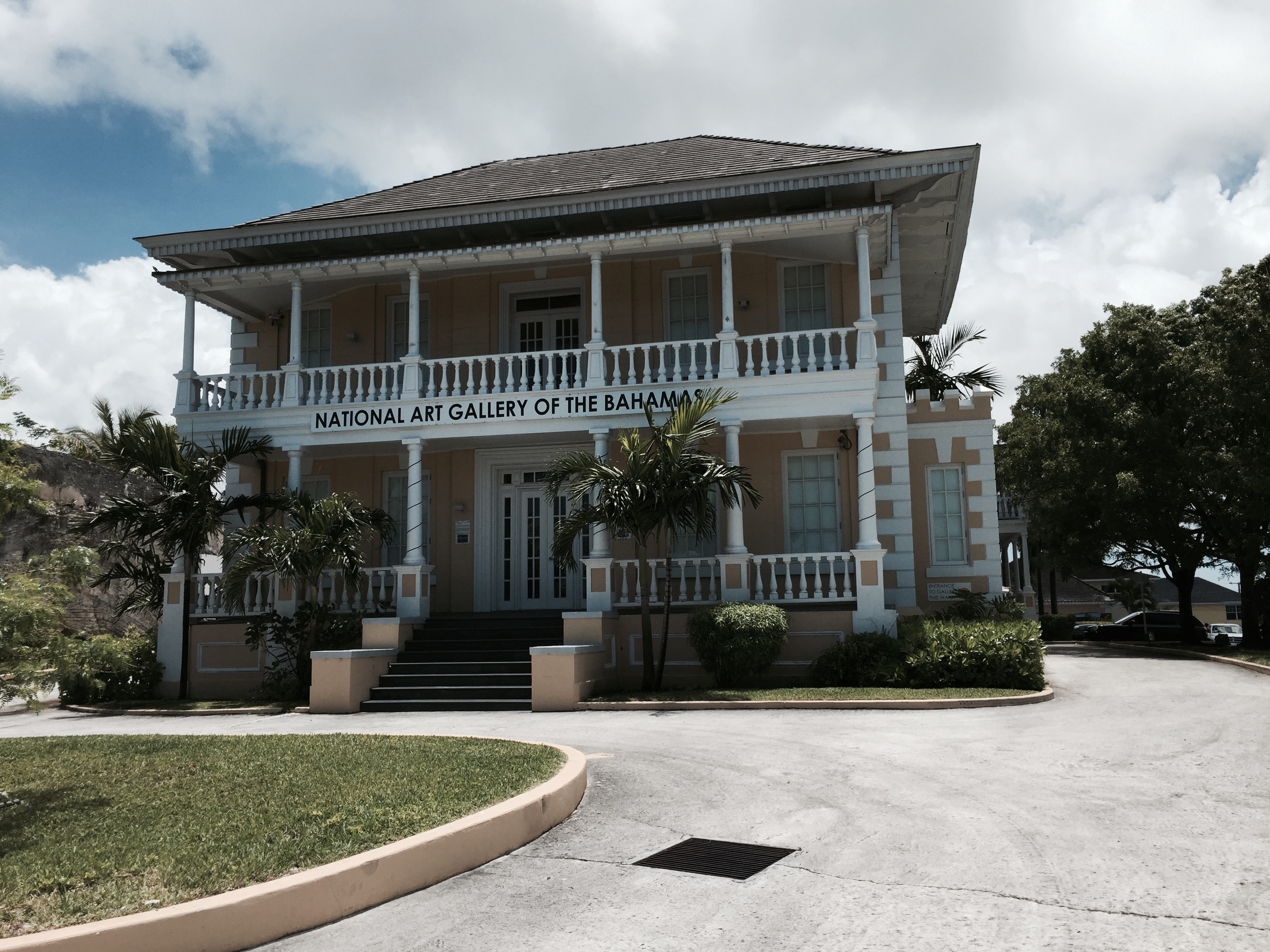 The National Art Gallery of the Bahamas